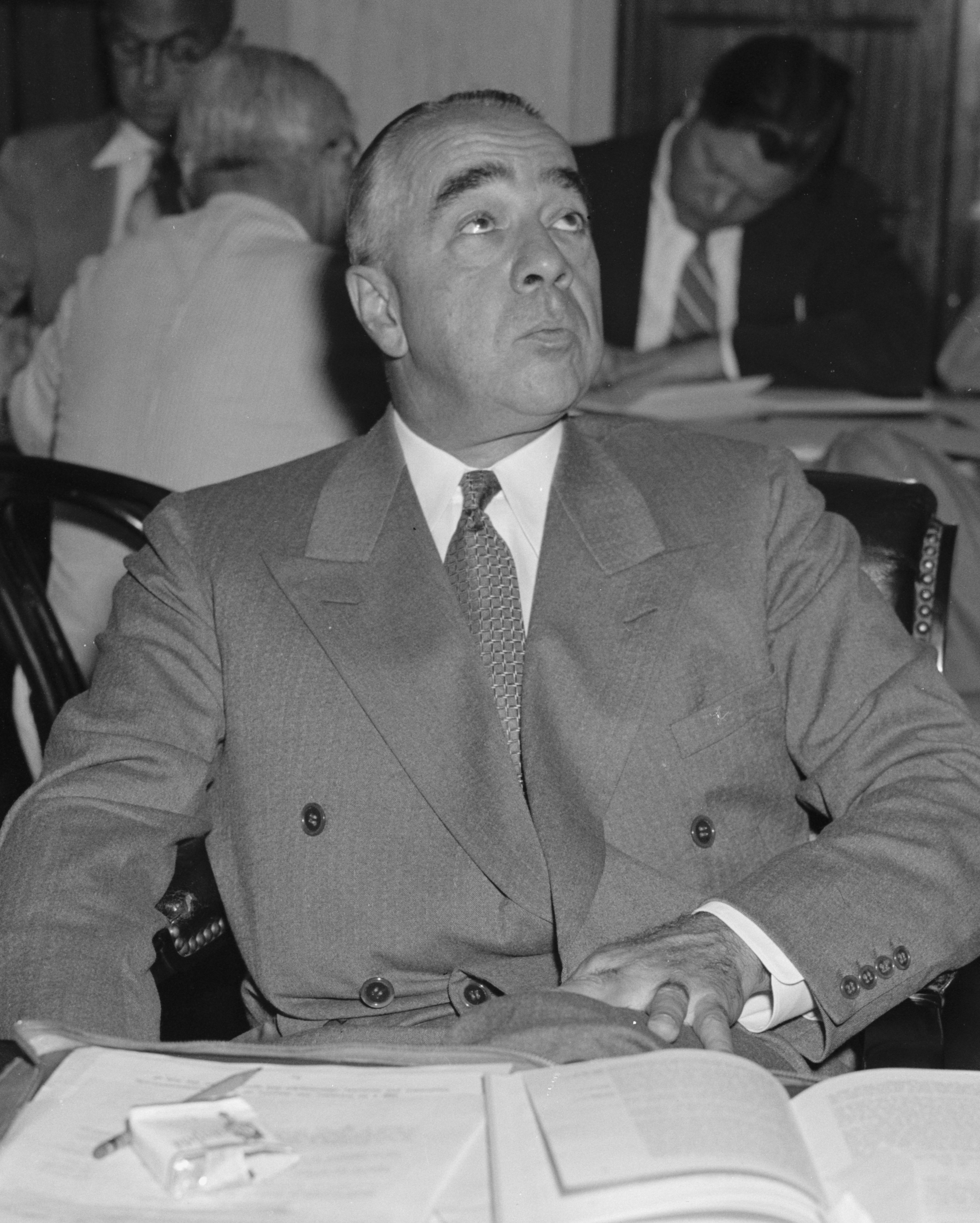 Title: Before Senate Wire Tapping committee. Washington, D.C., June 12. During an appearance before the Senate Wire Tapping Committee today, Joseph N. Pew, Jr., Pennsylvania Republican and official of the Sun Oil Co., flatly denied that he had engaged a private detective organization to 'watch' Democratic officials. However, he admitted that he hired Frank B. Bielaski, New York private detective, to 'watch stock transactions' in connection with a 'movement to rehabilitate' the Cramp Shipyards in Philadelphia. These shipyards, he said, were commercially unsound and could not be operated profitably Abstract/medium: 1 negative : glass ; 4 x 5 in. or smaller